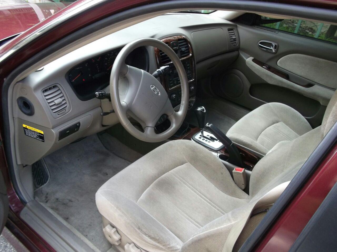 2004 Hyundai Sonata V6 2.7 US Spec Interior 한국어 (조선): 현대 뉴EF 쏘나타 V6 2.7 (미국 수출형) 실내